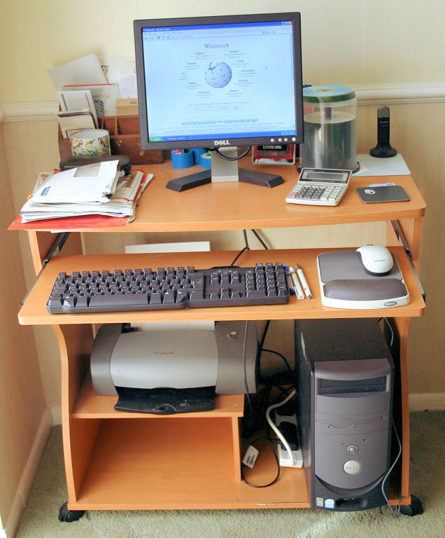 Typical Dell home user workstation